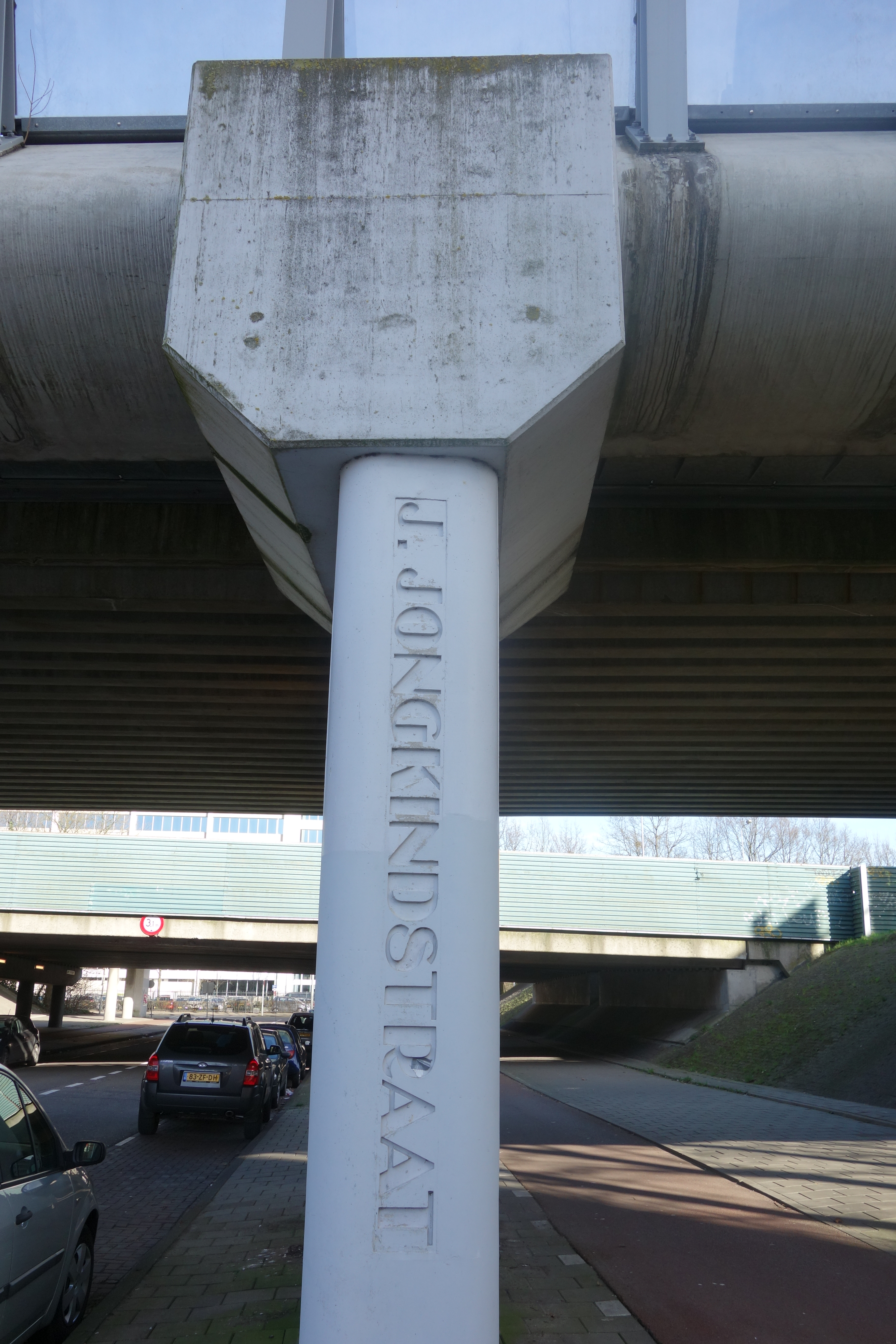 Concrete column in Jongkindstraat, Amsterdam (the Netherlands)